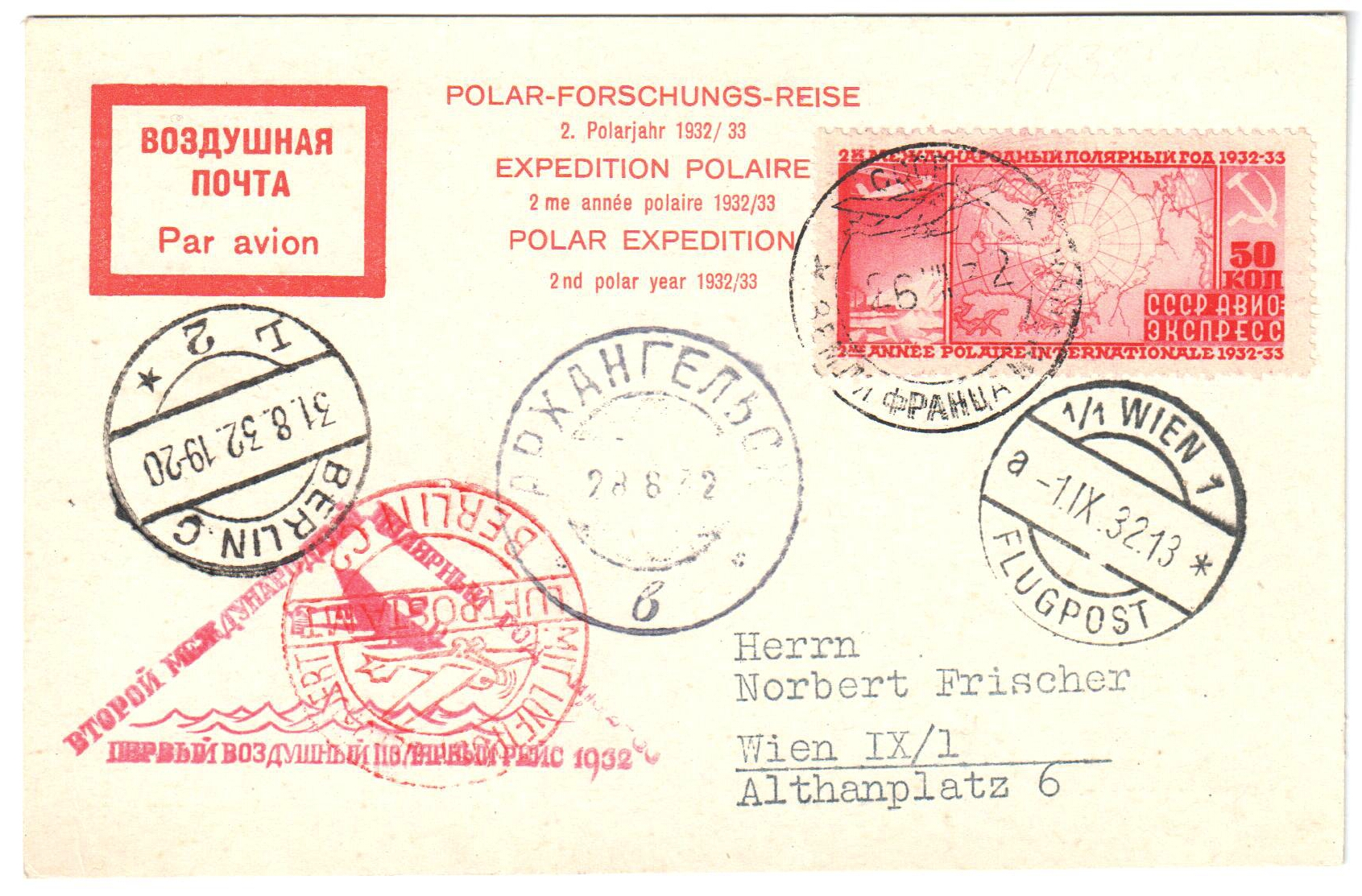 USSR 1932-08-26 Polar expedition cover intended for usage for the first polar aircraft flight in 1932 from Franz Josef Land to Arkhangelsk within the framework of the 2nd International Polar Year. The red triangular cachet was dedicated to this event. The flight however did not take place and all covers and cards were brought to Arkhangelsk and postmarked with the transit marking 'Архангельск 28-8-32'. Catalogue: Mi. 410.